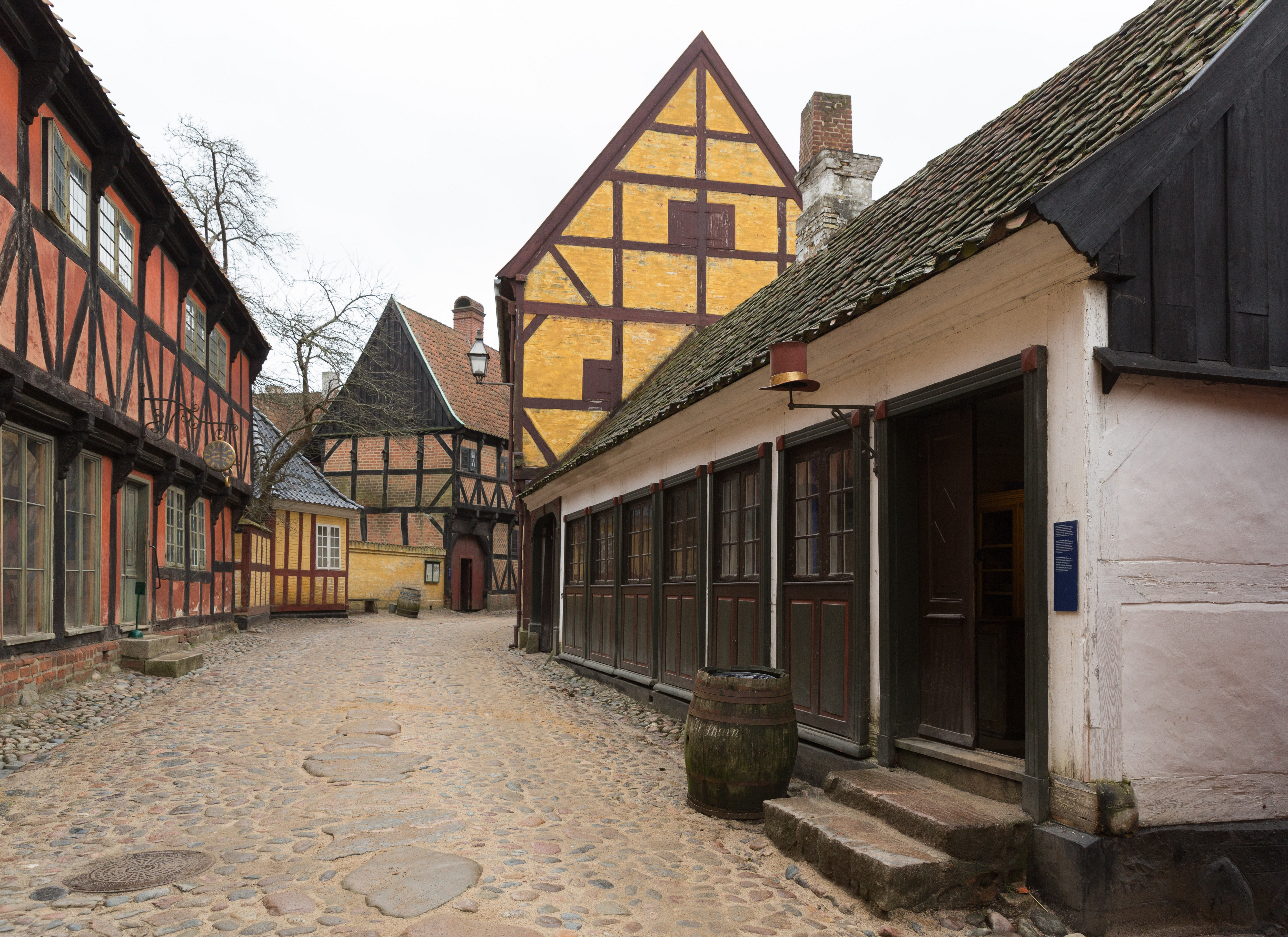 View of the Old City